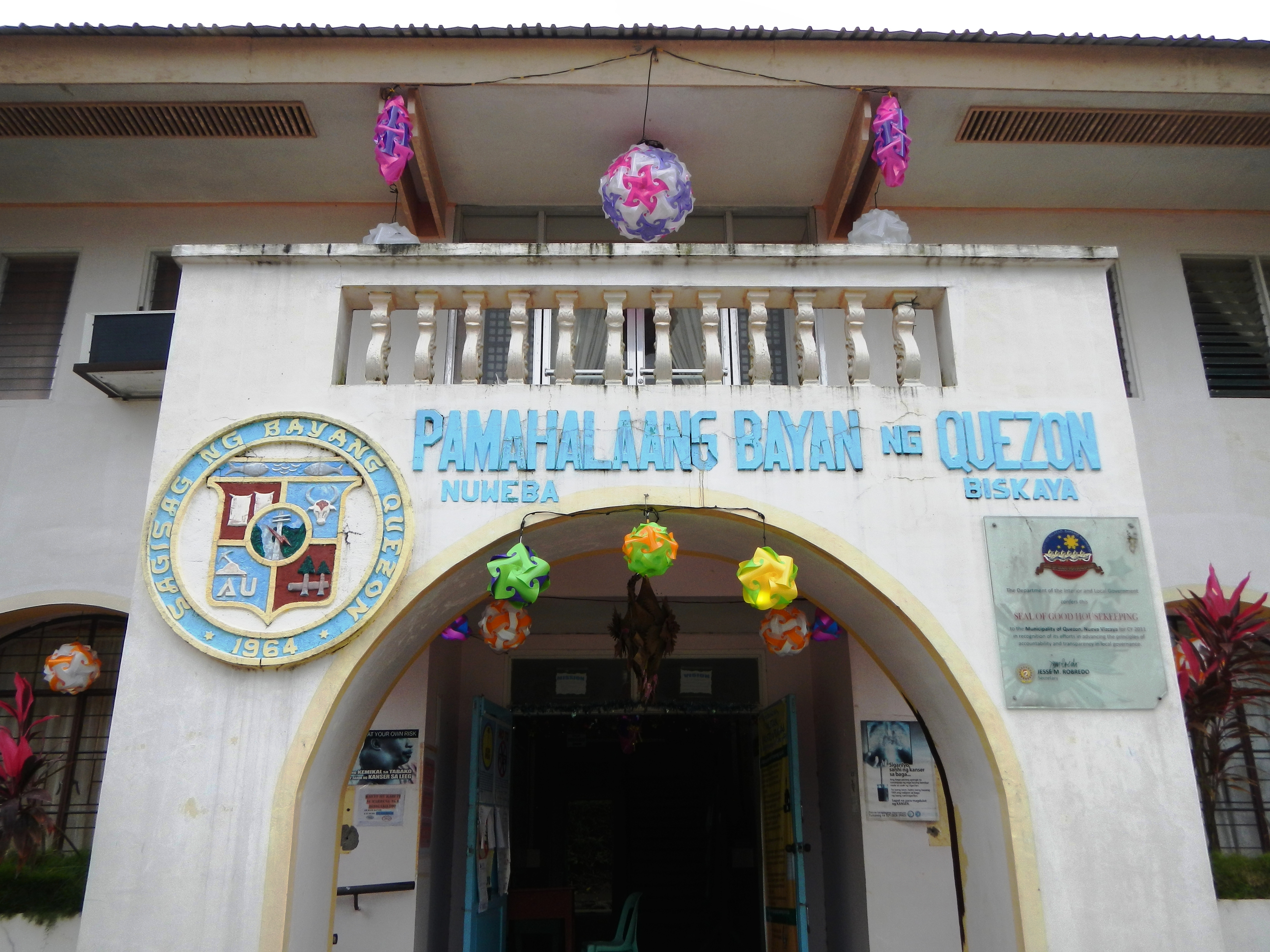 Upload Wizard Panorama photos of the -- (general description of landmarks, town, church) - Offiial seal and logo in the Town Hall facade of Quezon, Nueva Vizcaya[1].